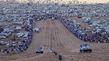 Al Ghadha desert festival